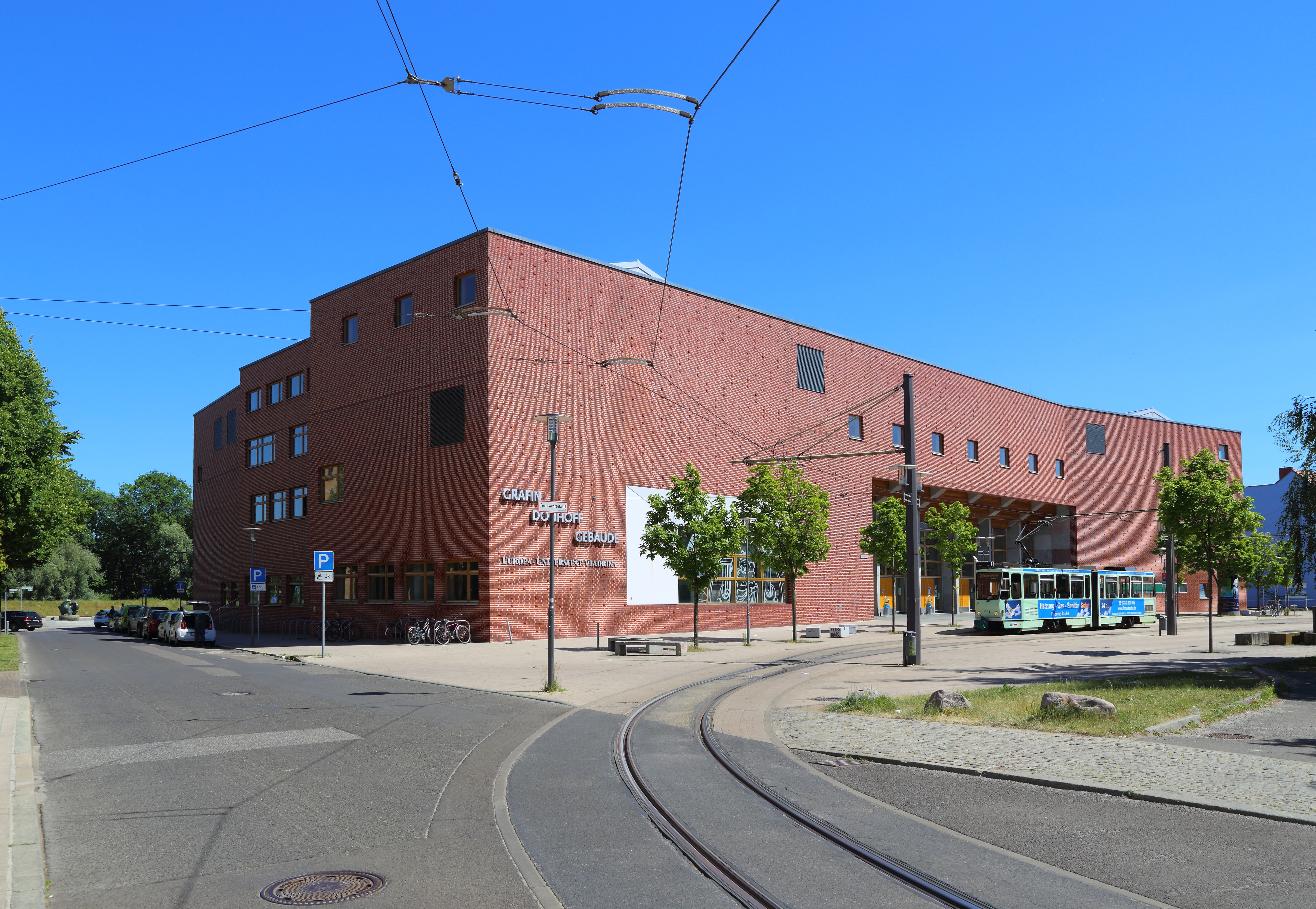 The Gräfin Dönhoff Building of the European University Viadrina in Frankfurt (Oder), Brandenburg, Deutschland.